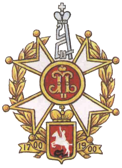 Badge of dragoon Moskovsky 1-st Regiment